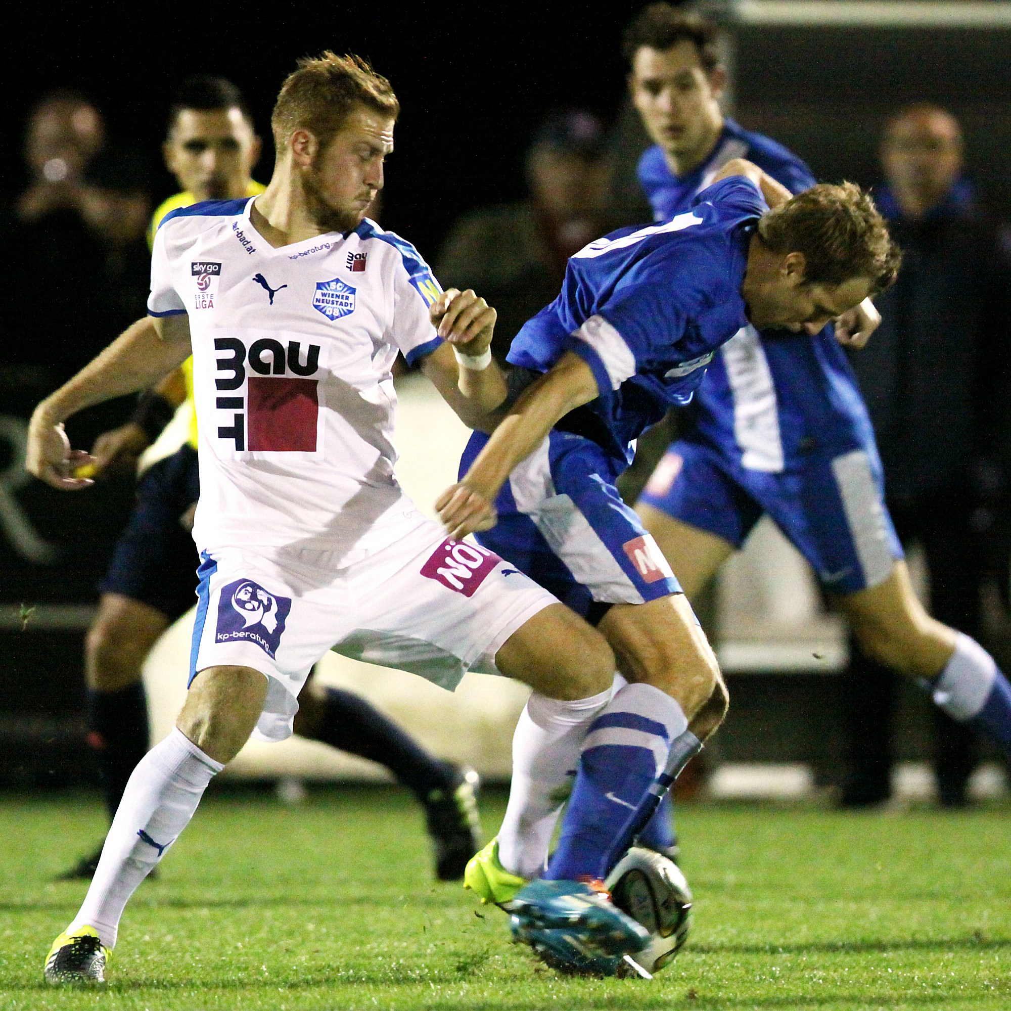 Austrian Cup – ASK Ebreichsdorf (blue shirts) vs. SC Wiener Neustadt (white shirts) on 2015-09-22 in Ebreichsdorf, 3-1 (1-1) – The photo shows Markus Rusek (SC Wiener Neustadt, left) and Dominik Höfel (ASK Ebreichsdorf, right)